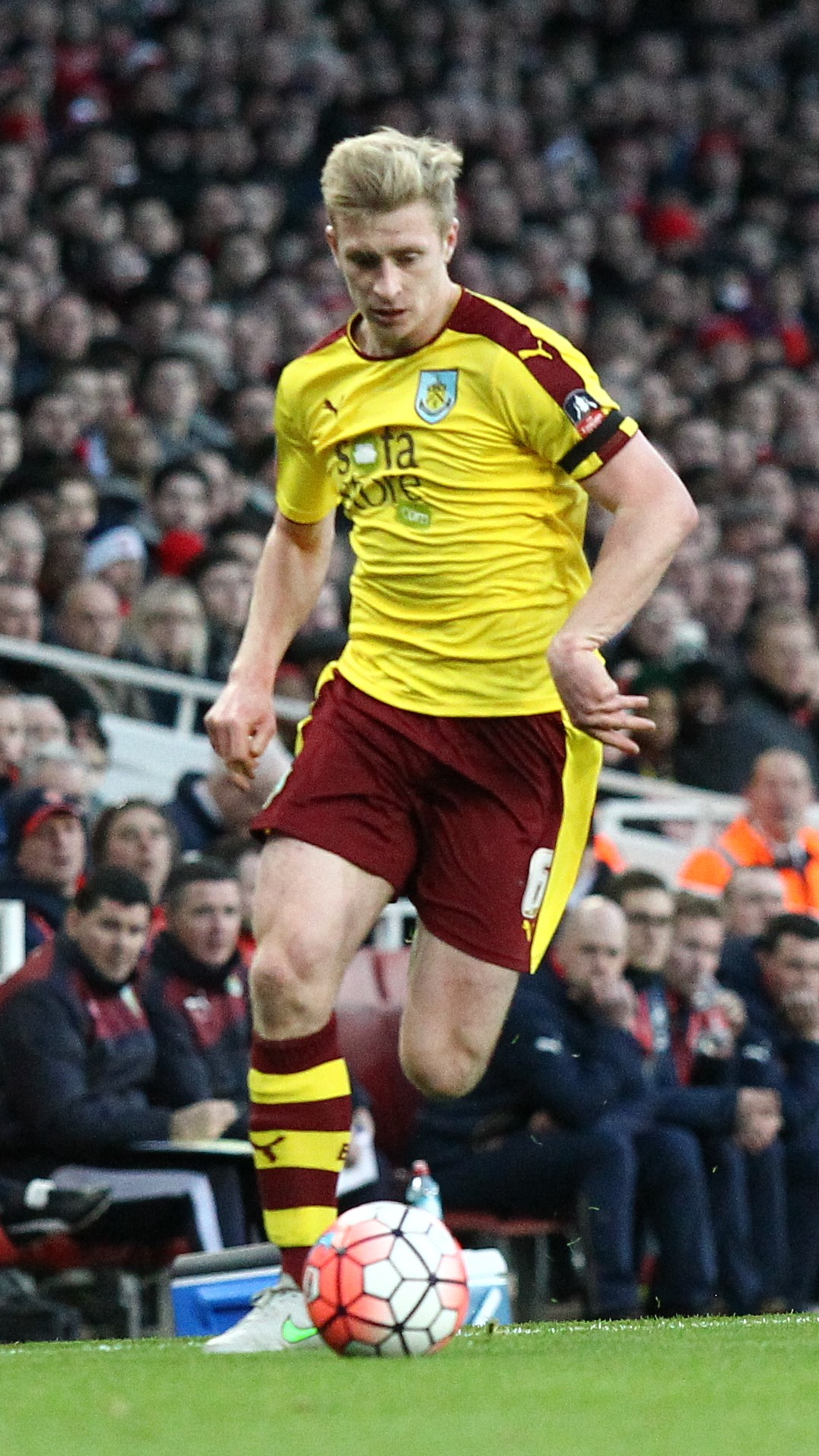 Alex Iwobi of Arsenal chases down Ben Mee of Burnley.